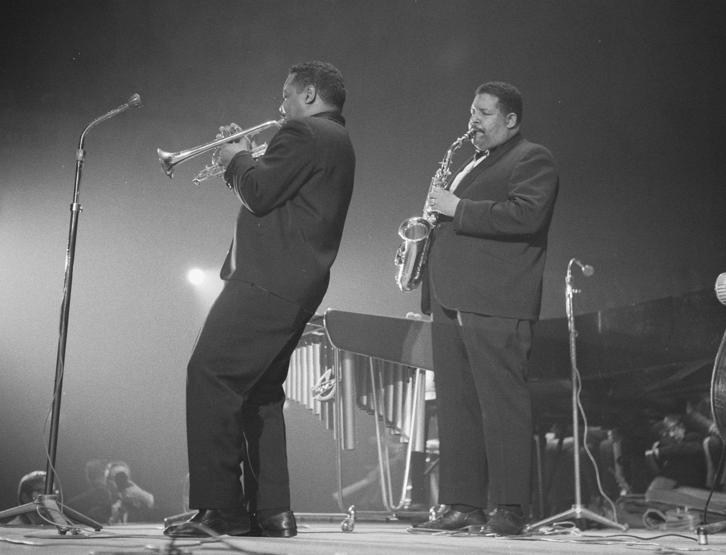 Nat & Julian (Cannonball) Adderley during a night concert, Concertgebouw Amsterdam (the Netherlands), 8 April 1961